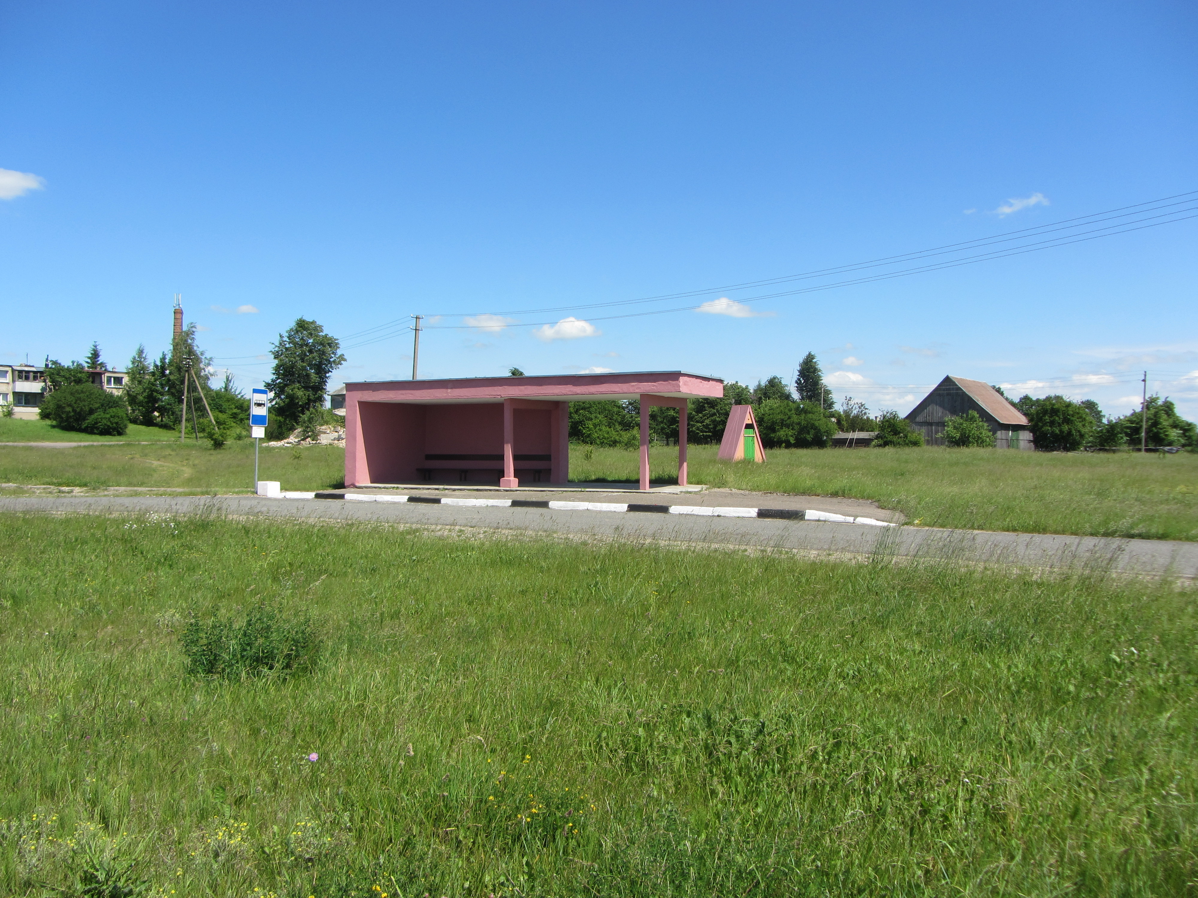 Alionys I, Lithuania